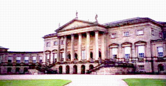 Kedleston Hall, Derbyshire. Photographed by Louisa Brown of [1] eho gives permission for the image to be used in the public domain.